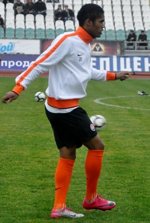 Douglas Costa de Souza